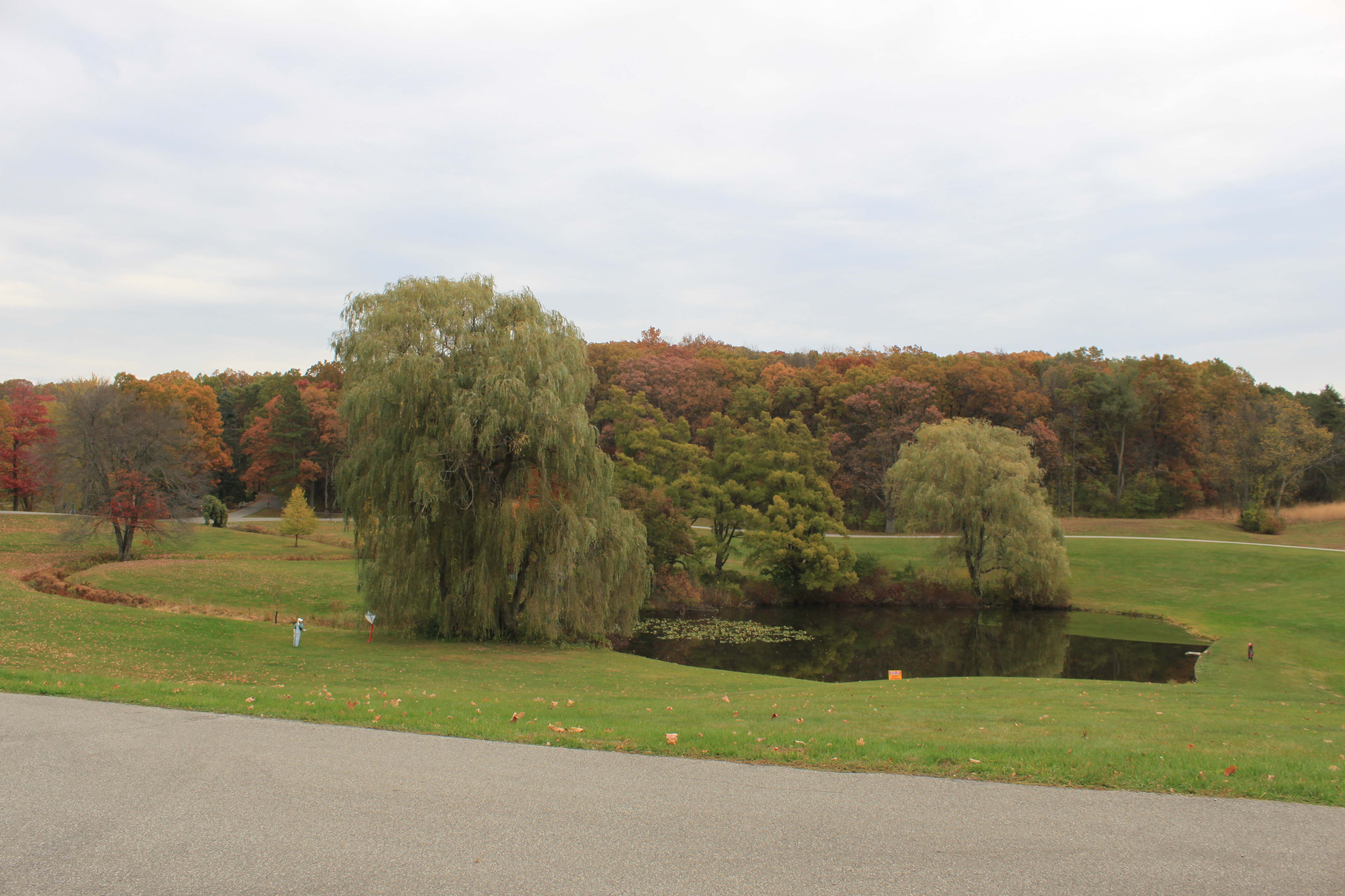 Hidden Lake Gardens Pond, Tipton, Michigan